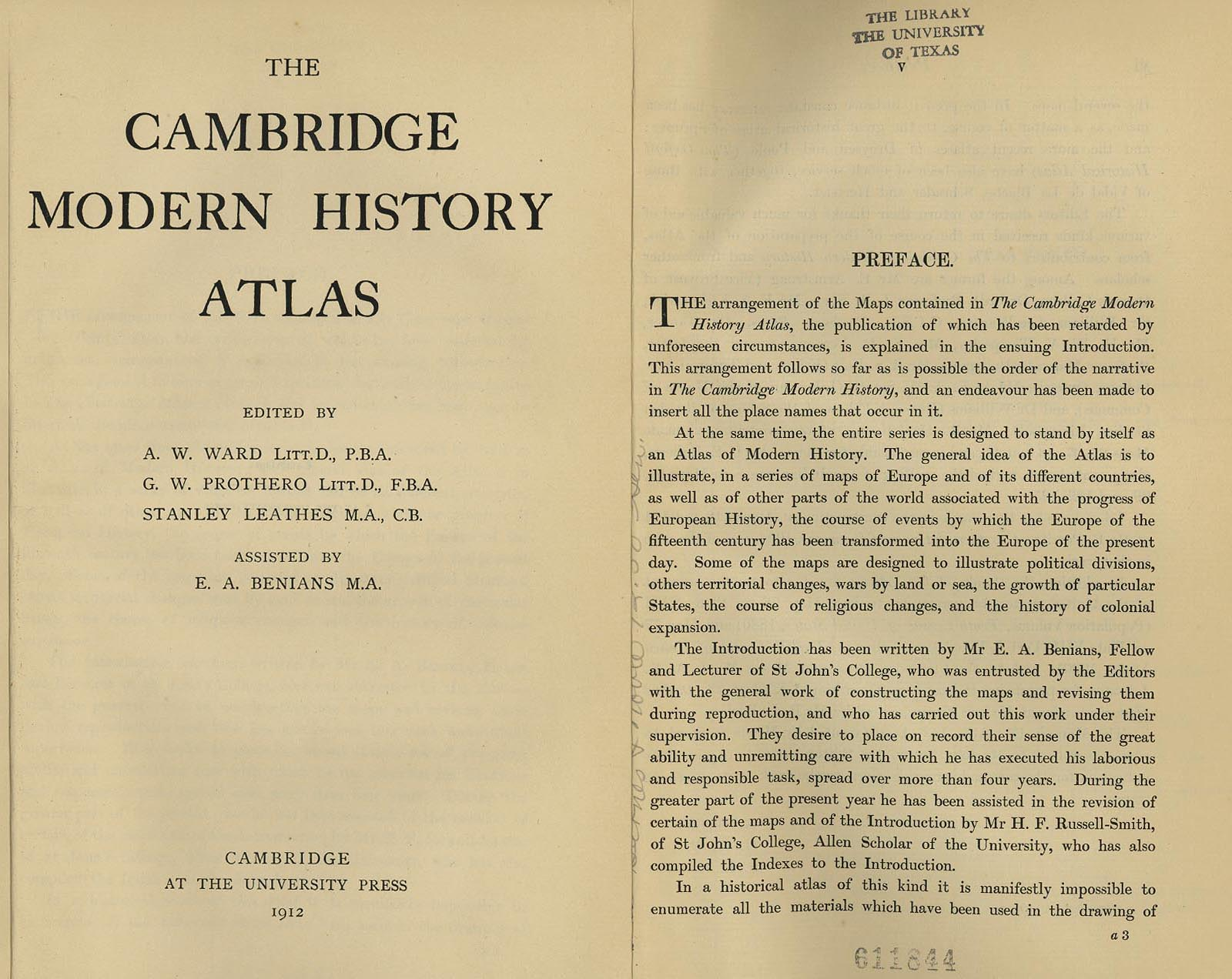 Title page and preface of the Cambridge Modern History Atlas, 1912, to give an example of a historical atlas.